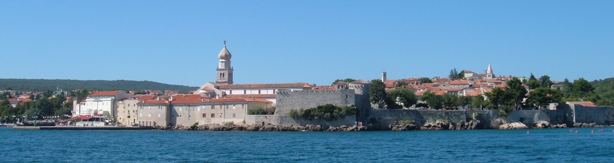 Krk city from the Adriatic Sea